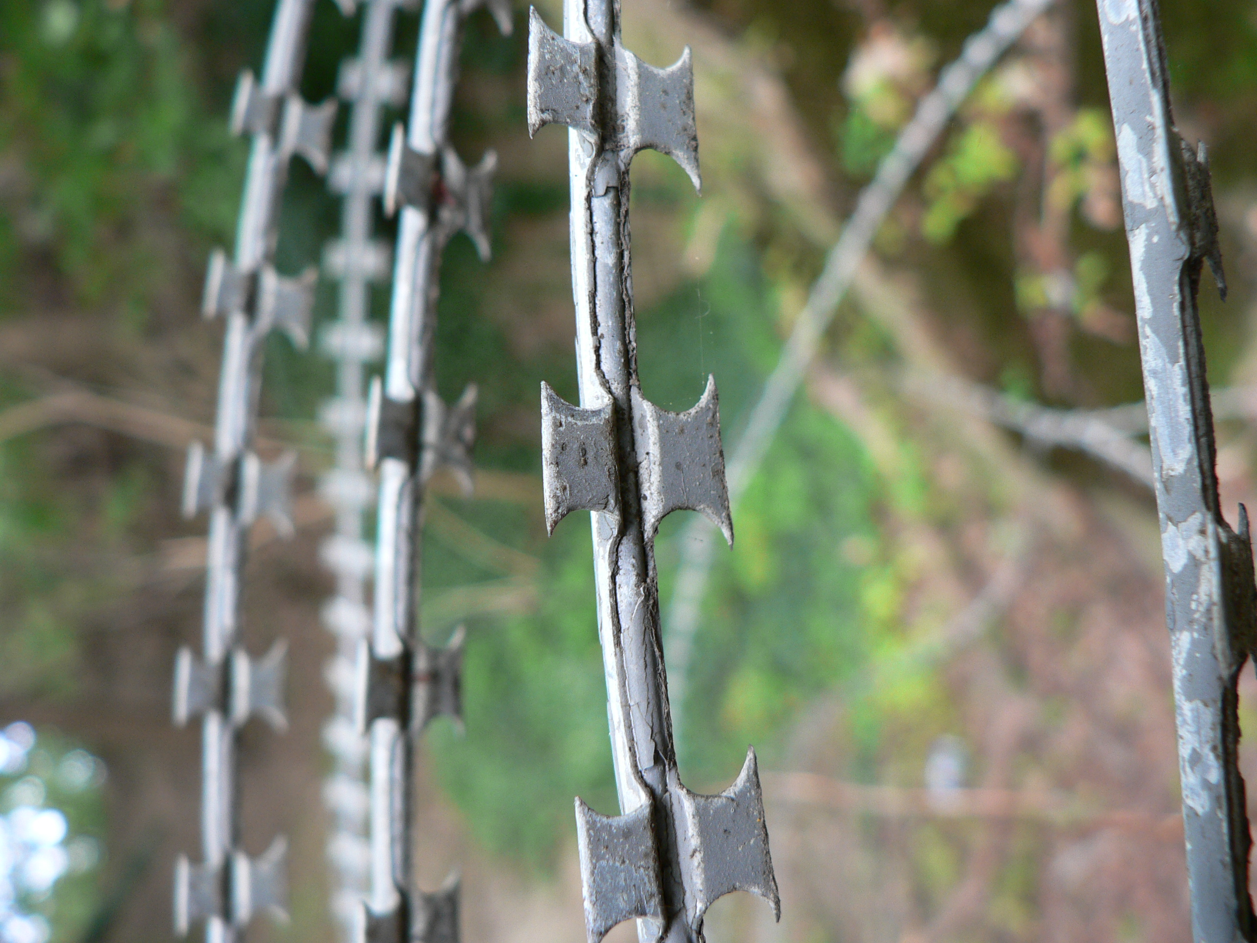 razor wire - own picture